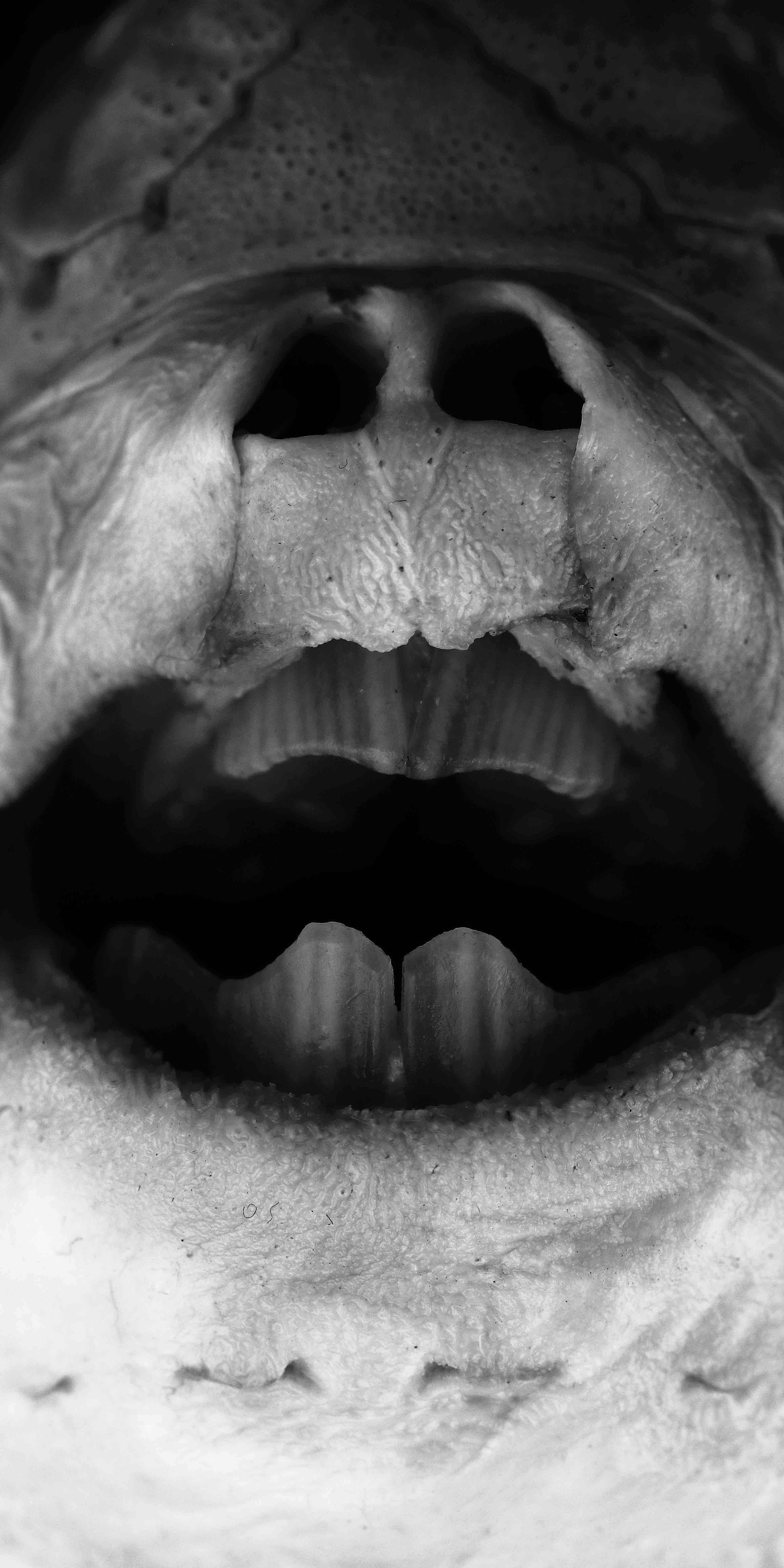 tabular tooth